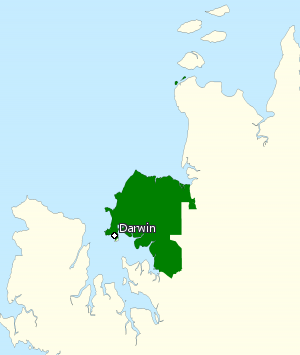 Incorporates or developed using Administrative Boundaries ©PSMA Australia Limited licensed by the Commonwealth of Australia under Creative Commons Attribution 4.0 International licence (CC BY 4.0). Derived from State and Territory Boundaries from the Australian Bureau of Statistics under Creative Commons Attribution 2.5 Australia license (CC BY 2.5 AU)